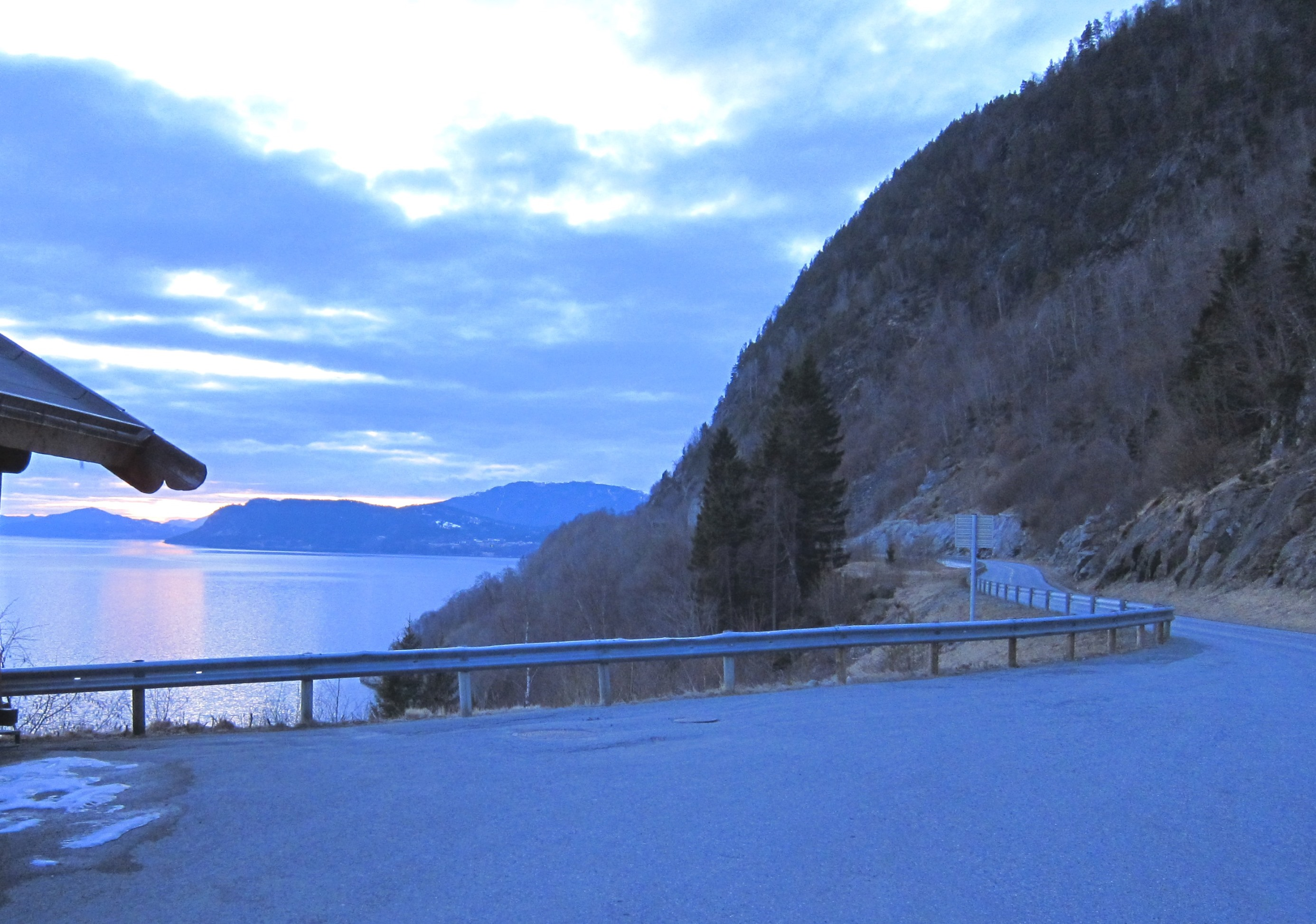 Road 650 in Møre og Romsdal, at Storfjorden, Norway